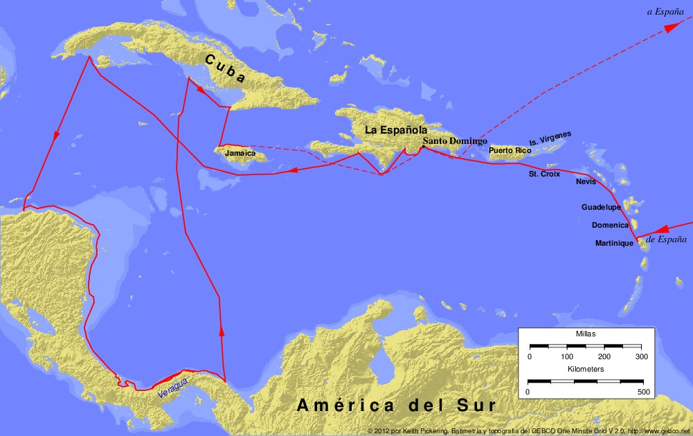 Fourth voyage of Christopher Columbus Unknown